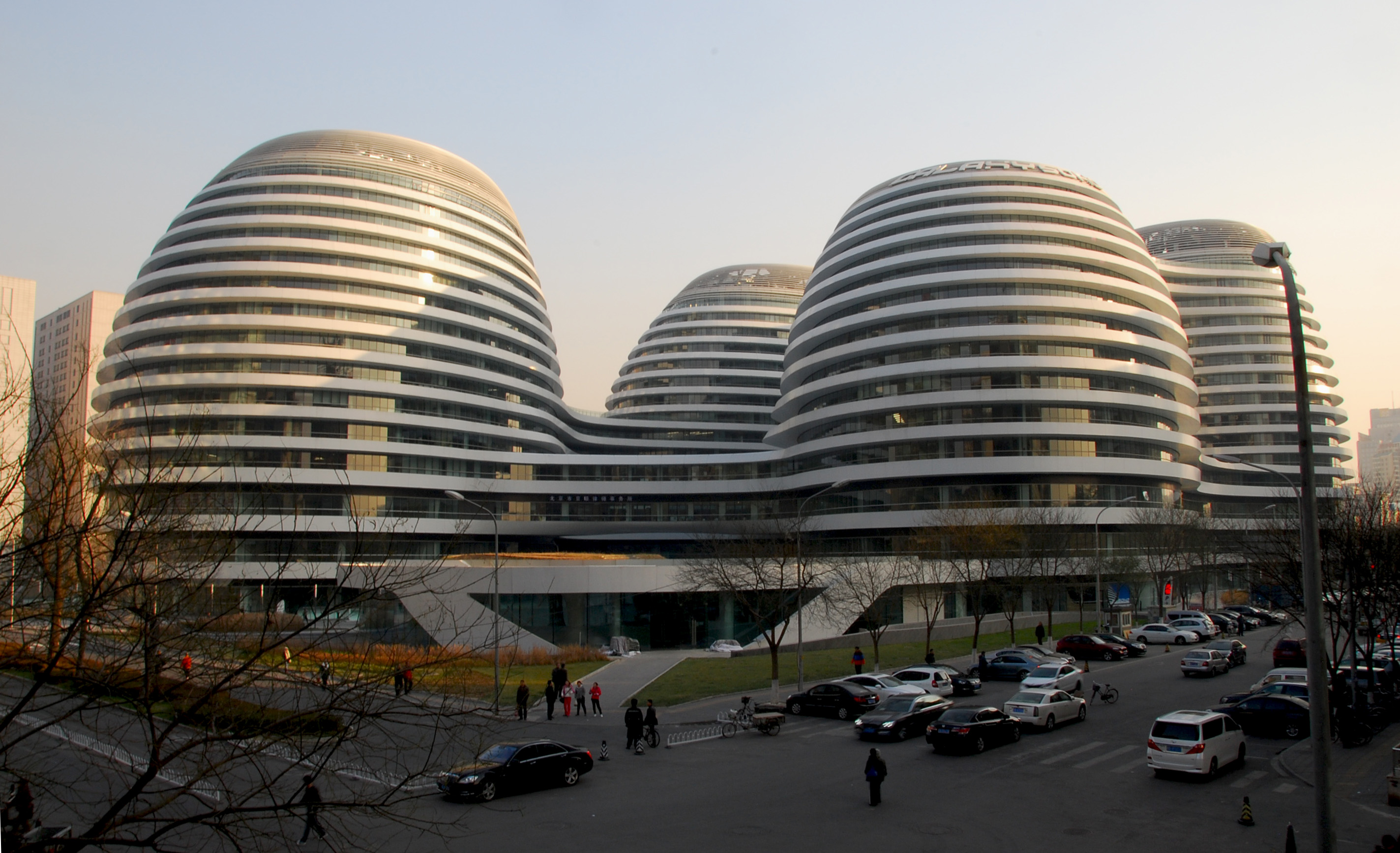 Architect: Zaha Hadid The project consists of 4 differently sized low rise towers with atria. The towers are linked by a mall at ground and basement level and by curved bridges at L-5 and L16. The buildings seem to resemble beehives but the restrictions of cladding material don't always work in favour of the curved expression.